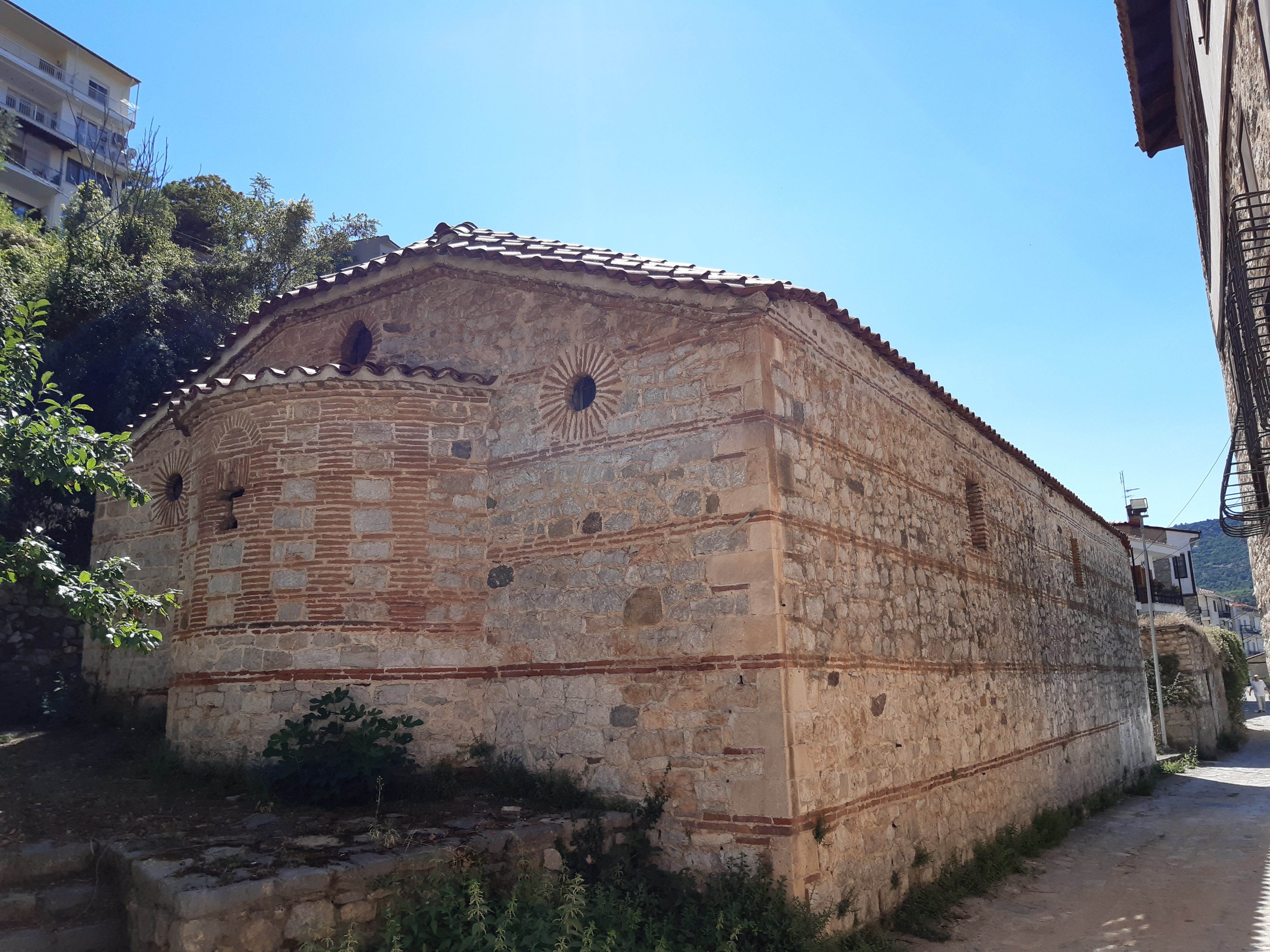 Saint Luke Church in Kastoria in August 2020